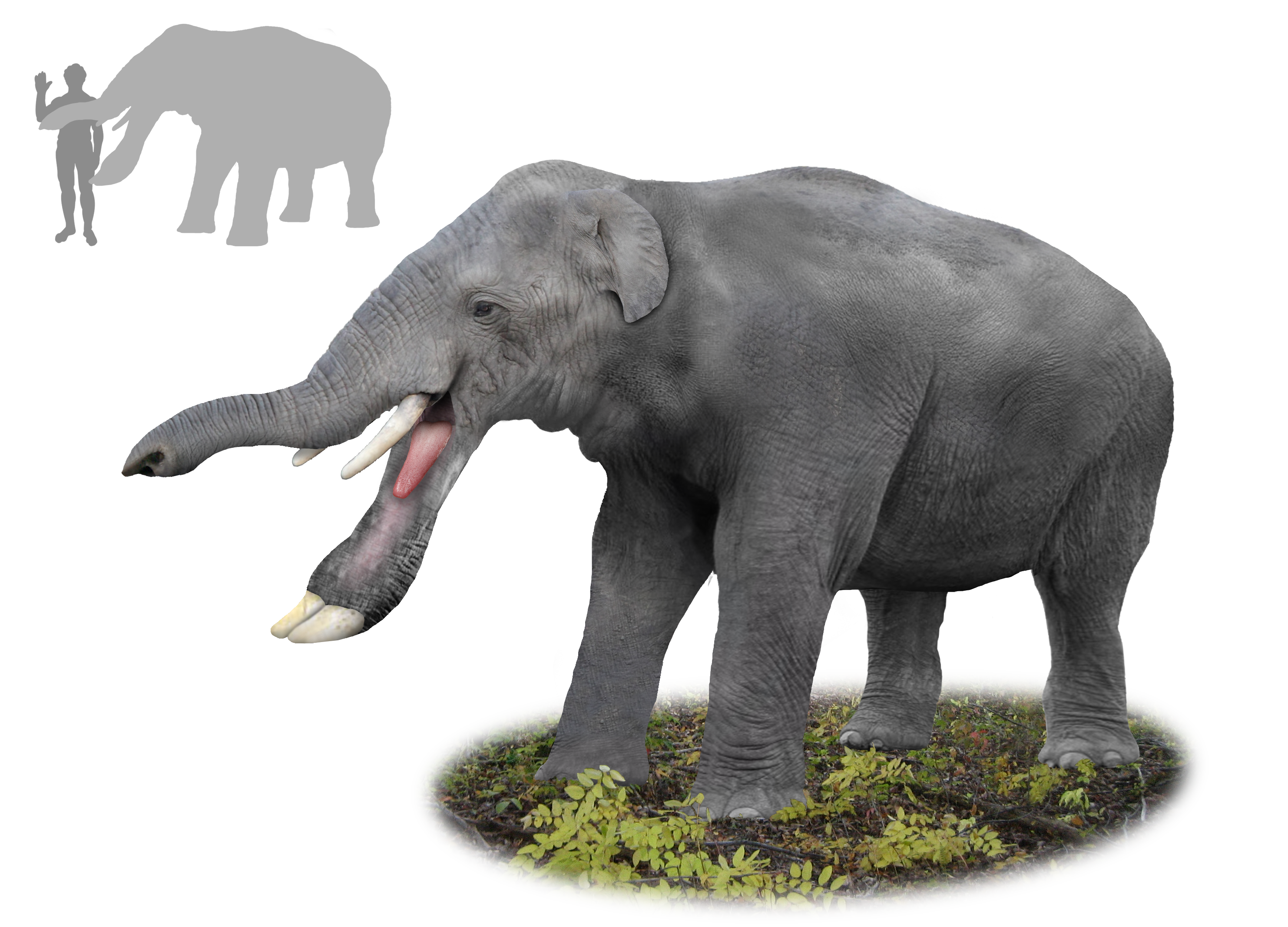 Artist's impression of a Platybelodon.